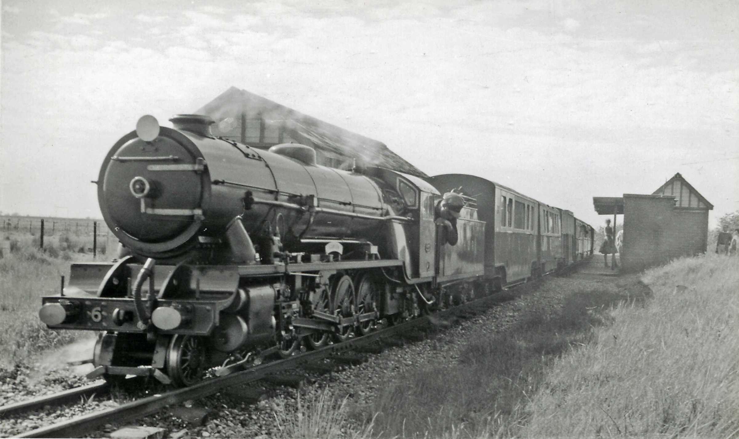 Hythe - Dungeness RH&DR train at Greatstone Dunes Halt, 1962. View northward, towards Dymchurch and Hythe: Romney, Hythe & Dymchurch miniature Railway. The locomotive is 4-8-2 No. 6 'Samson.